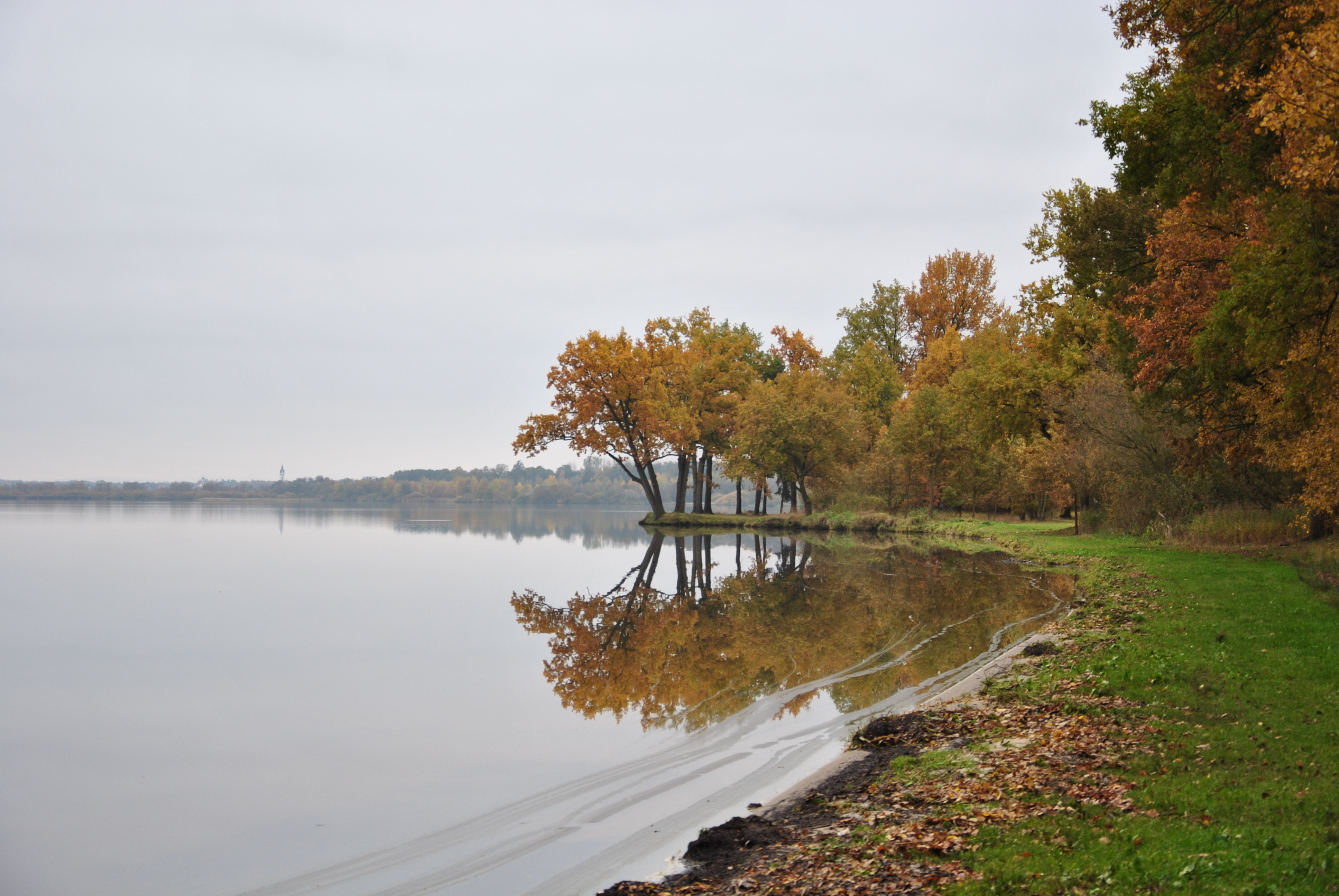 Rožmberk